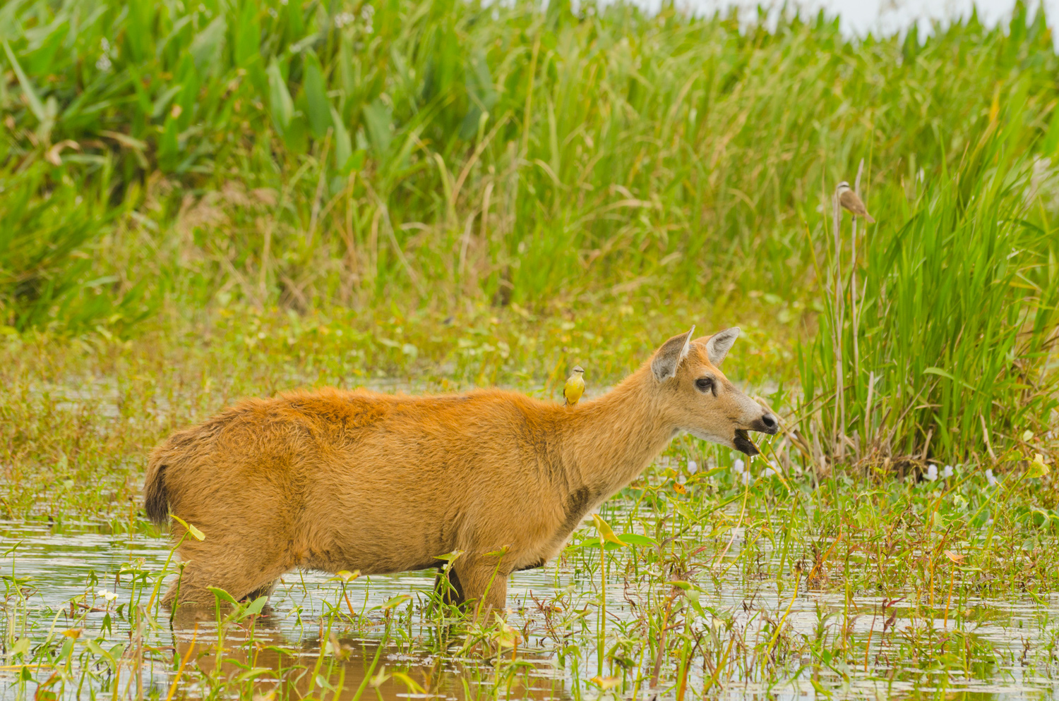 A female marsh deer (Blastocerus dichotomus) in Esteros del Iberá, Argentina.